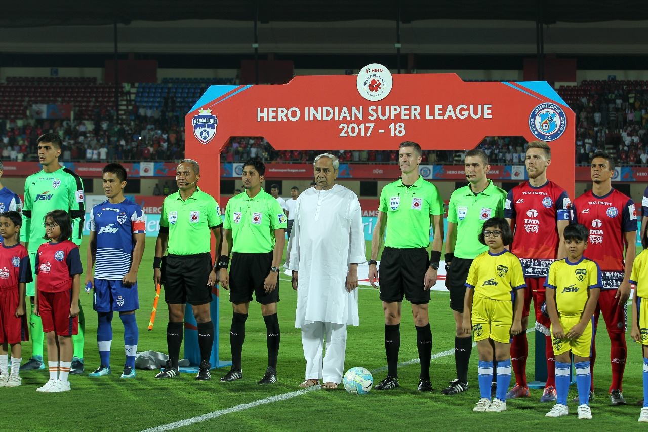 ISL Jamshedpur FC vc Bangalore FC match in Kalinga Stadium, Odisha